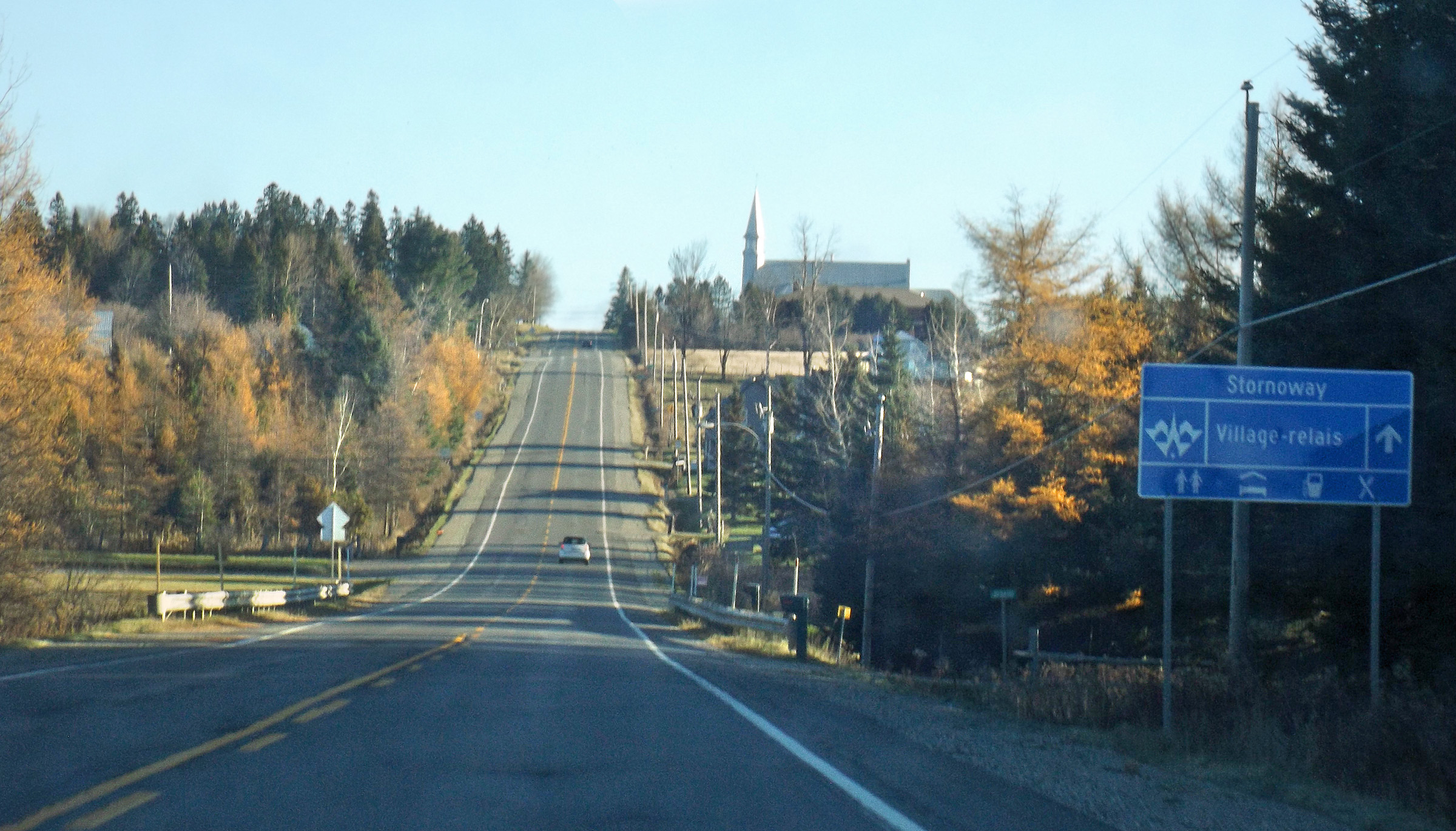 Stornoway a partir de Pitouneville